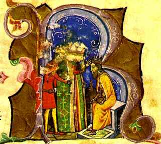 Béla IV.